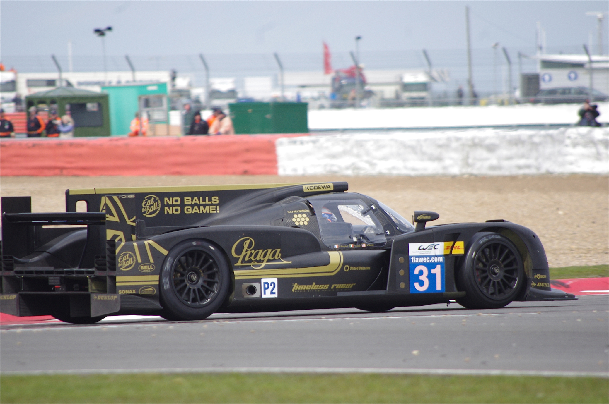 The No. 31 Lotus T128 field by Kodewa driven by Kevin Weeda, Vitantonio Liuzzi and Christophe Bouchut at the 2013 6 Hours of Silverstone